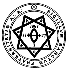 Astrum Argentum seal